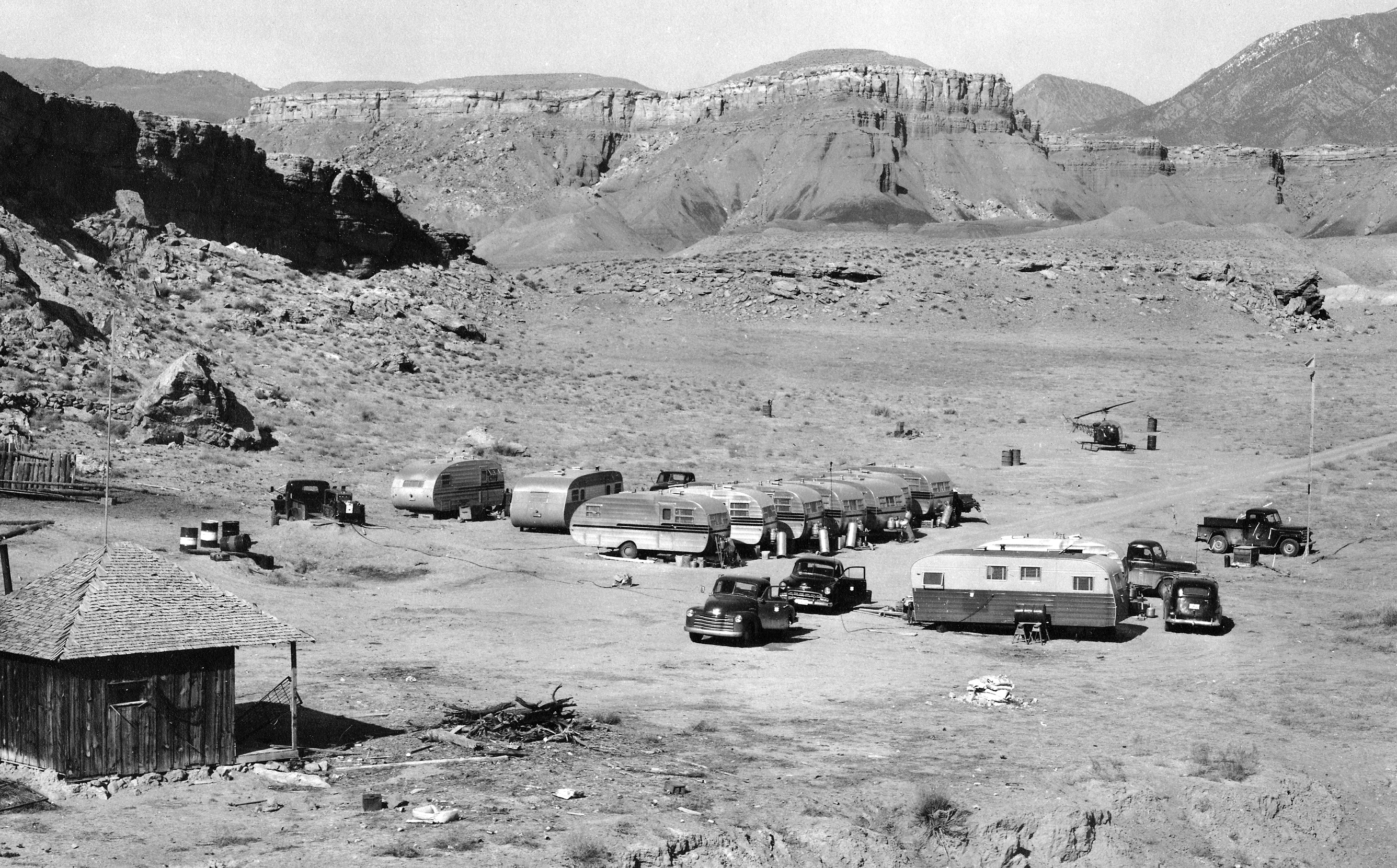 A typical USGS mapping field camp. Note the helicopter parked near the trailers. Helicopters were first used by the USGS for topographic mapping in Death Valley in 1948. (Description from USGS.)